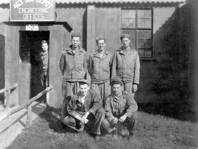 463rd Sub Dept AFCE and Bombsight Shop. Back row L to R: John F. Nelson (NCOIC); Edward N. Deck; and Warren J. Dart. Front row L to R: William J. Fitzgerald; and Francis M. Pfeffer. W/O Walter K. Schwing 463rd's Asst Supply Officer stands in the doorway.